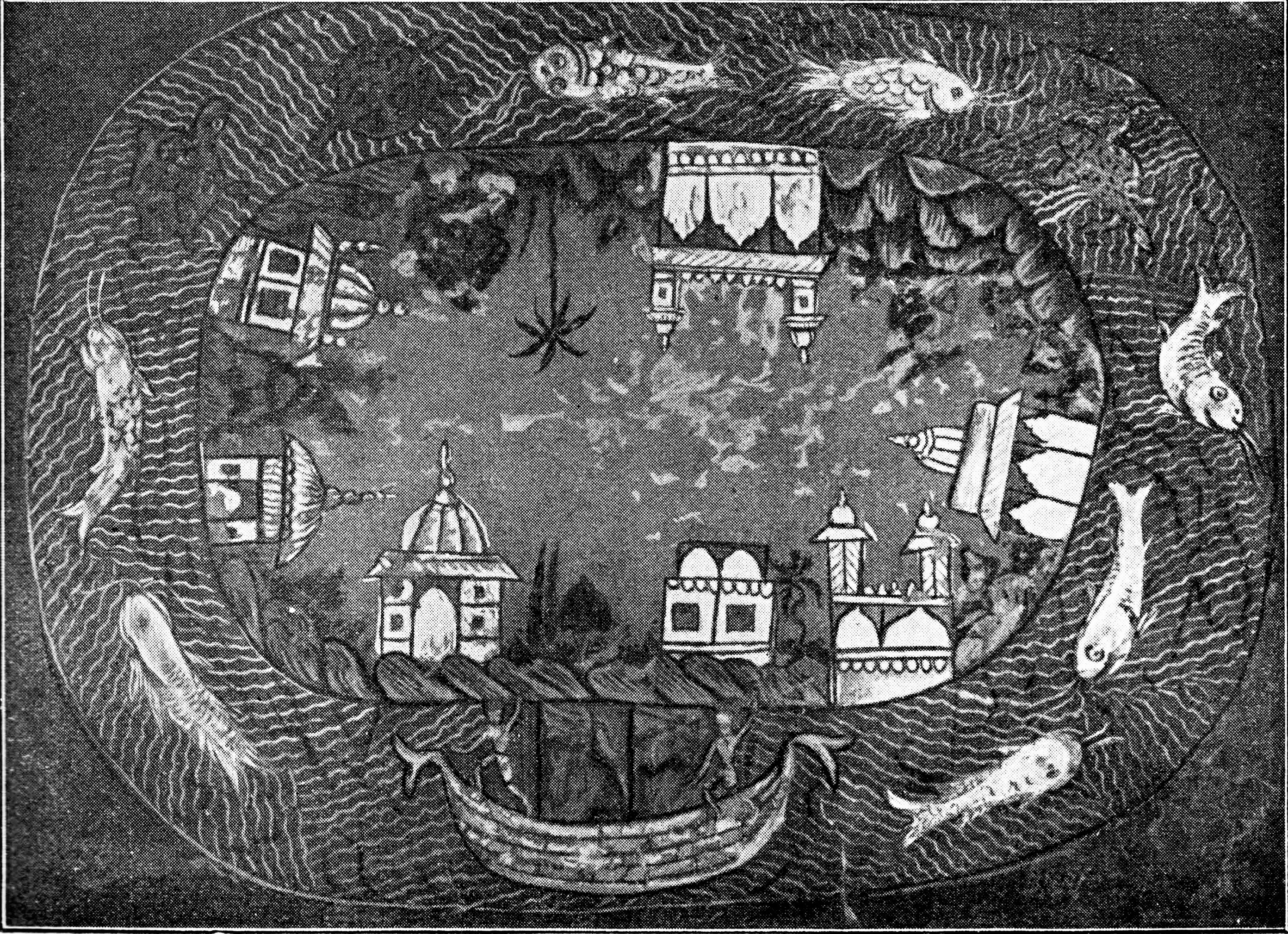 Illustration after an "oriental" cosmographer of the 12th century